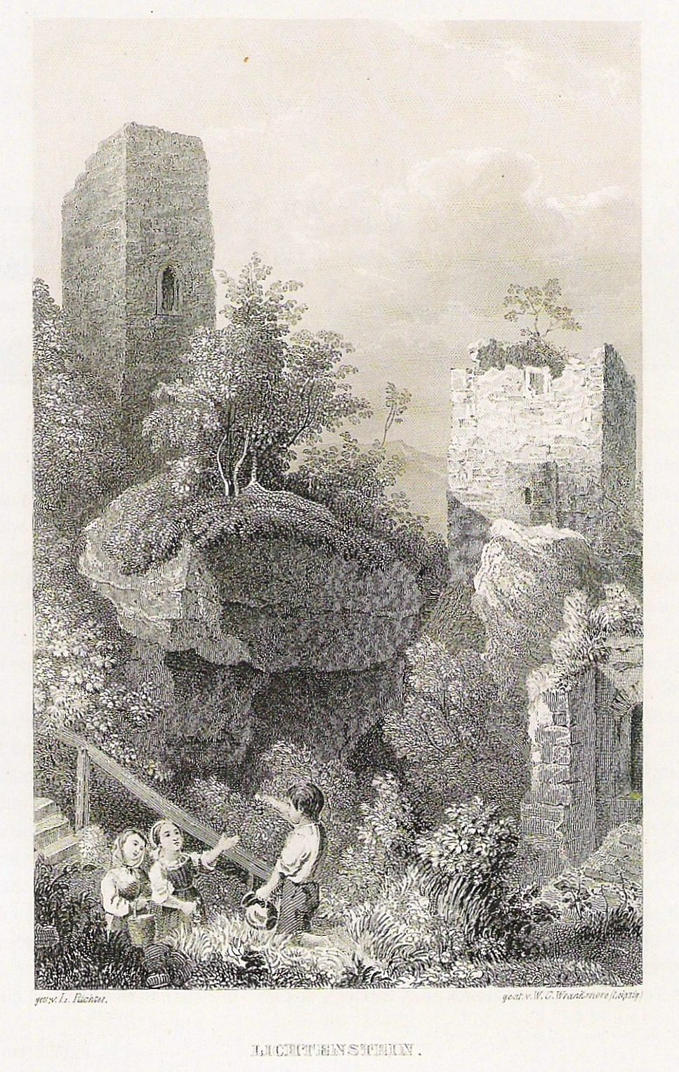 Lichtenstein castle ruin near Pfarrweisach (Lower Franconia, Bavaria). Steel engraving by W. C. Wrankmore after a drawing of Ludwig Richter.